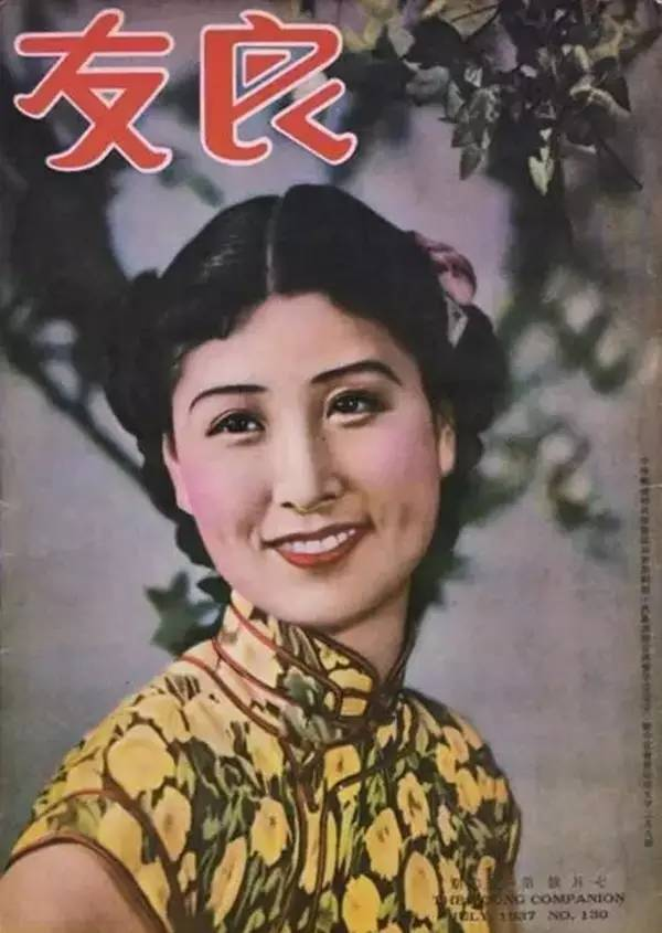 Chinese socialite and spy Zheng Pingru on the cover of Liangyou Magazine, No. 130